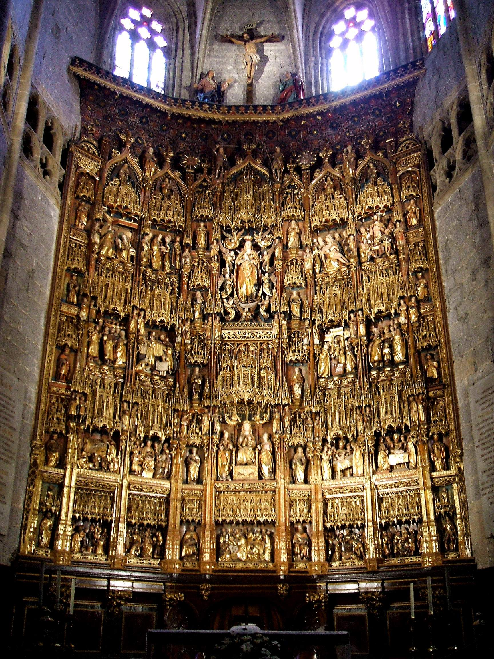 Retablo mayor hispano-flamenco de la Basílica de la Asunción de Nuestra Señora de Lequeitio (Vizcaya, País Vasco, España)